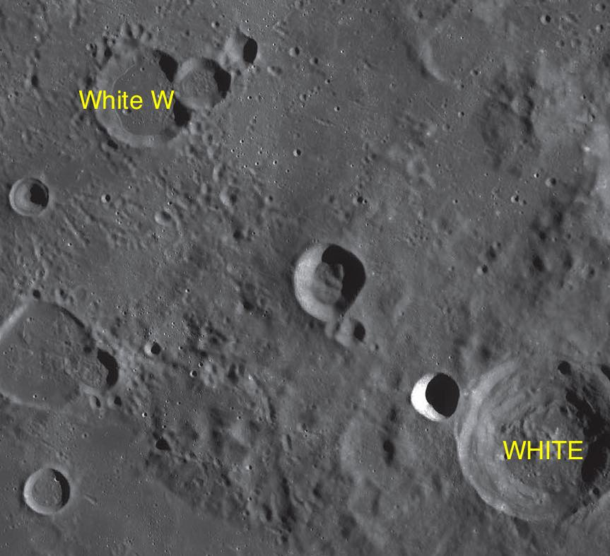 Part of the chart LAC-120 used for the presentation.